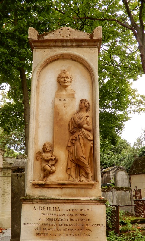 Antoine Reicha tombstone, Jean-Francoiis Baud, sandstone, 1836, Cimitery Pere-Lachaise, Paris